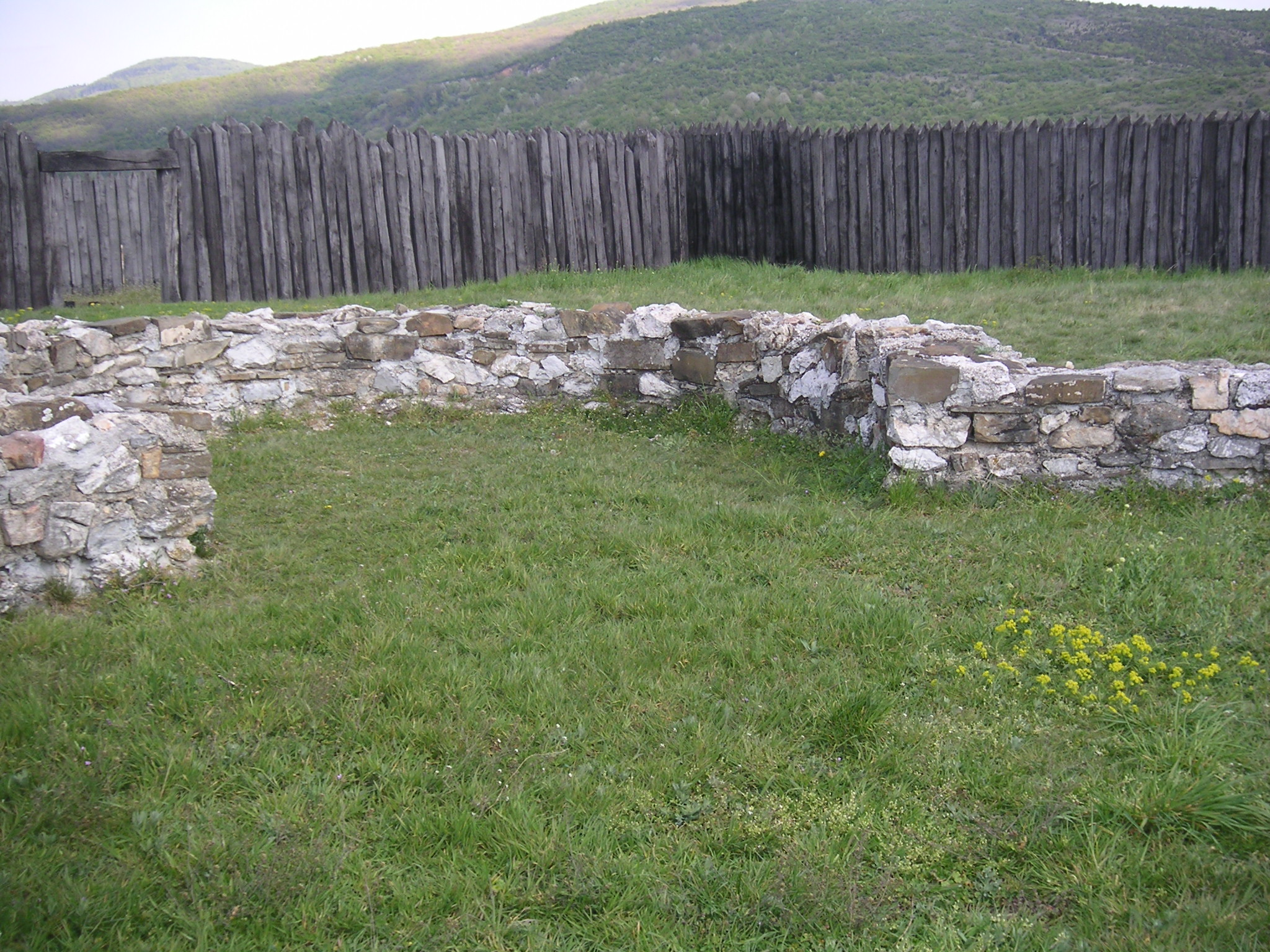 Kostolec hillfort in Ducové, Slovakia, detail